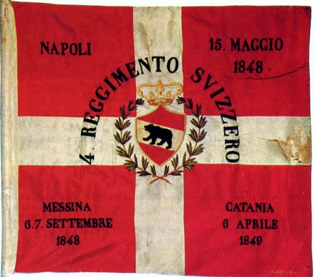 A-side of the ensign of th 4. Swiss Regiment in Naples